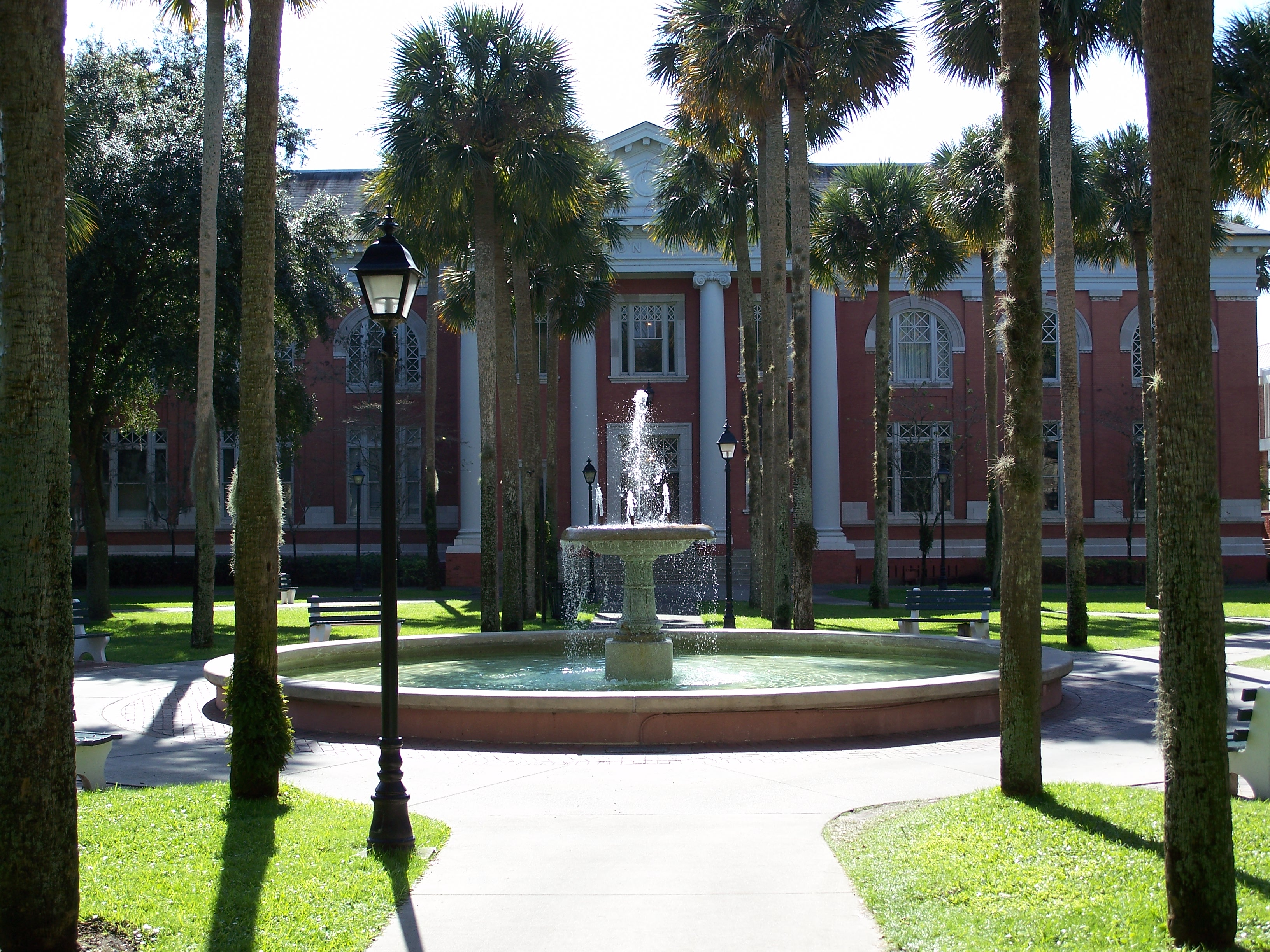 Sampson Hall on Stetson University campus, in DeLand, Florida. The Duncan Gallery of Art is located inside.